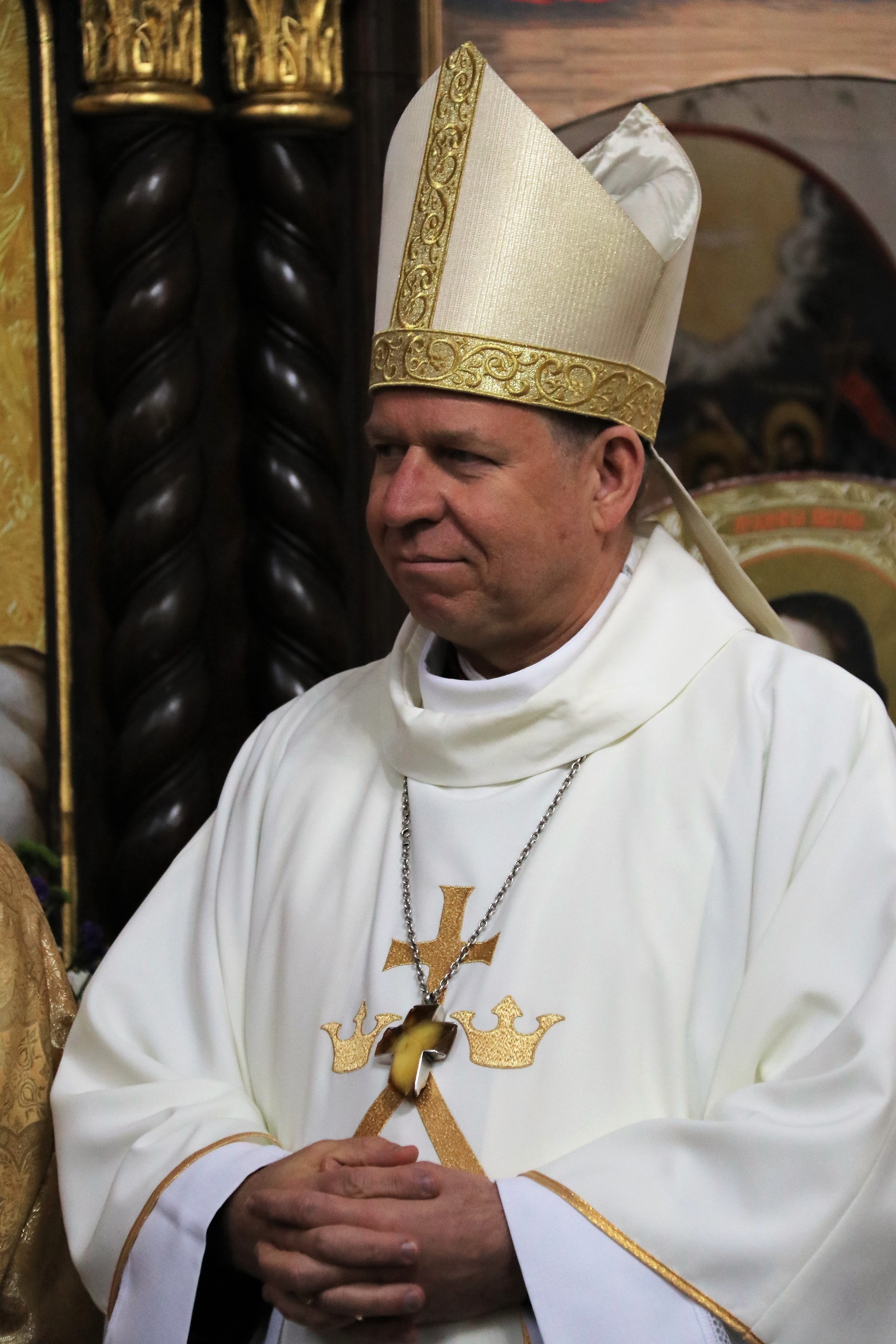 Archbishop of Vilnius Gintaras Linas Grušas (12 Nov 2017)